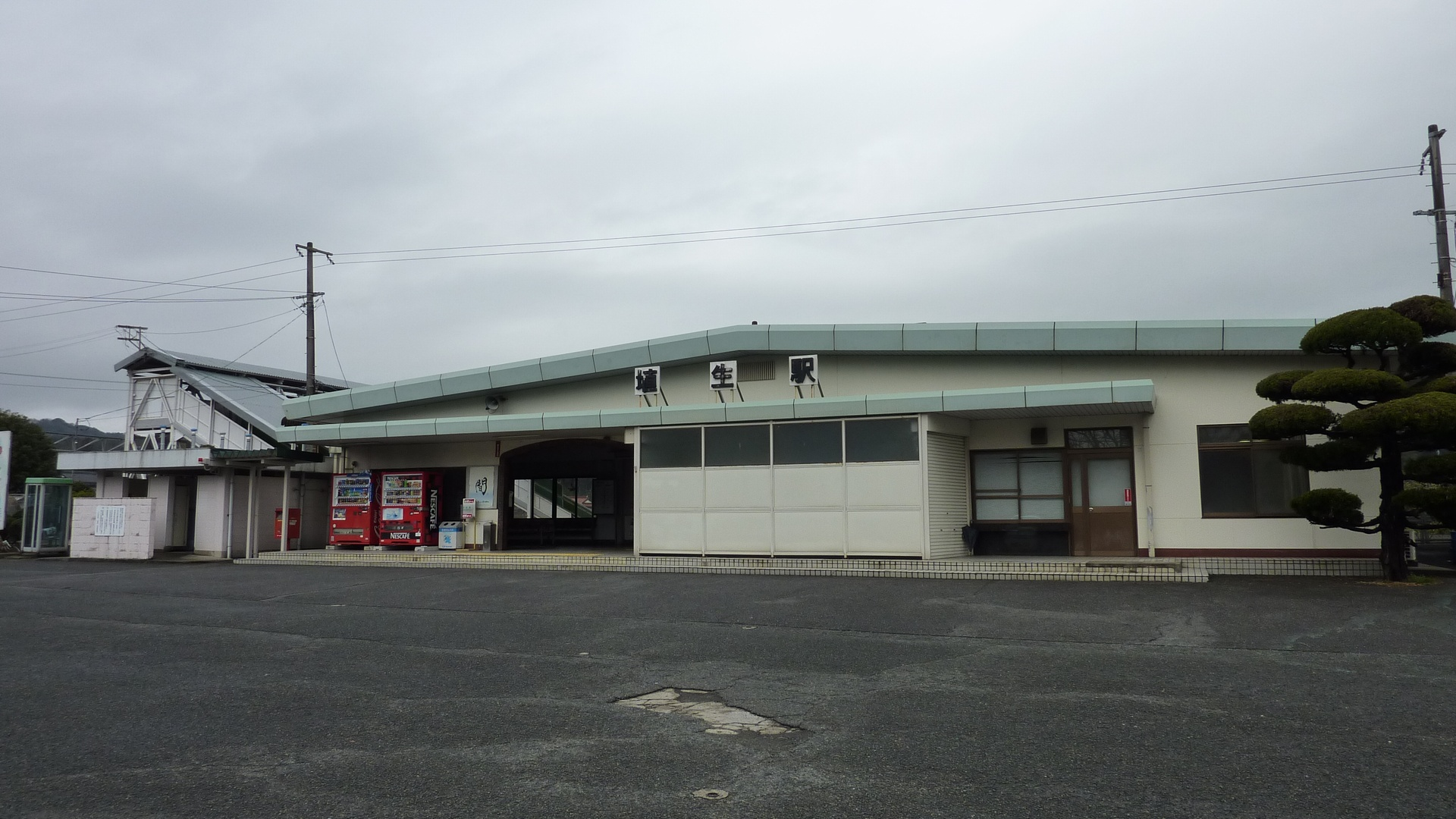 The Habu Station (Habu, Sanyo-Onoda City, Yamaguchi Prefecture, Japan)